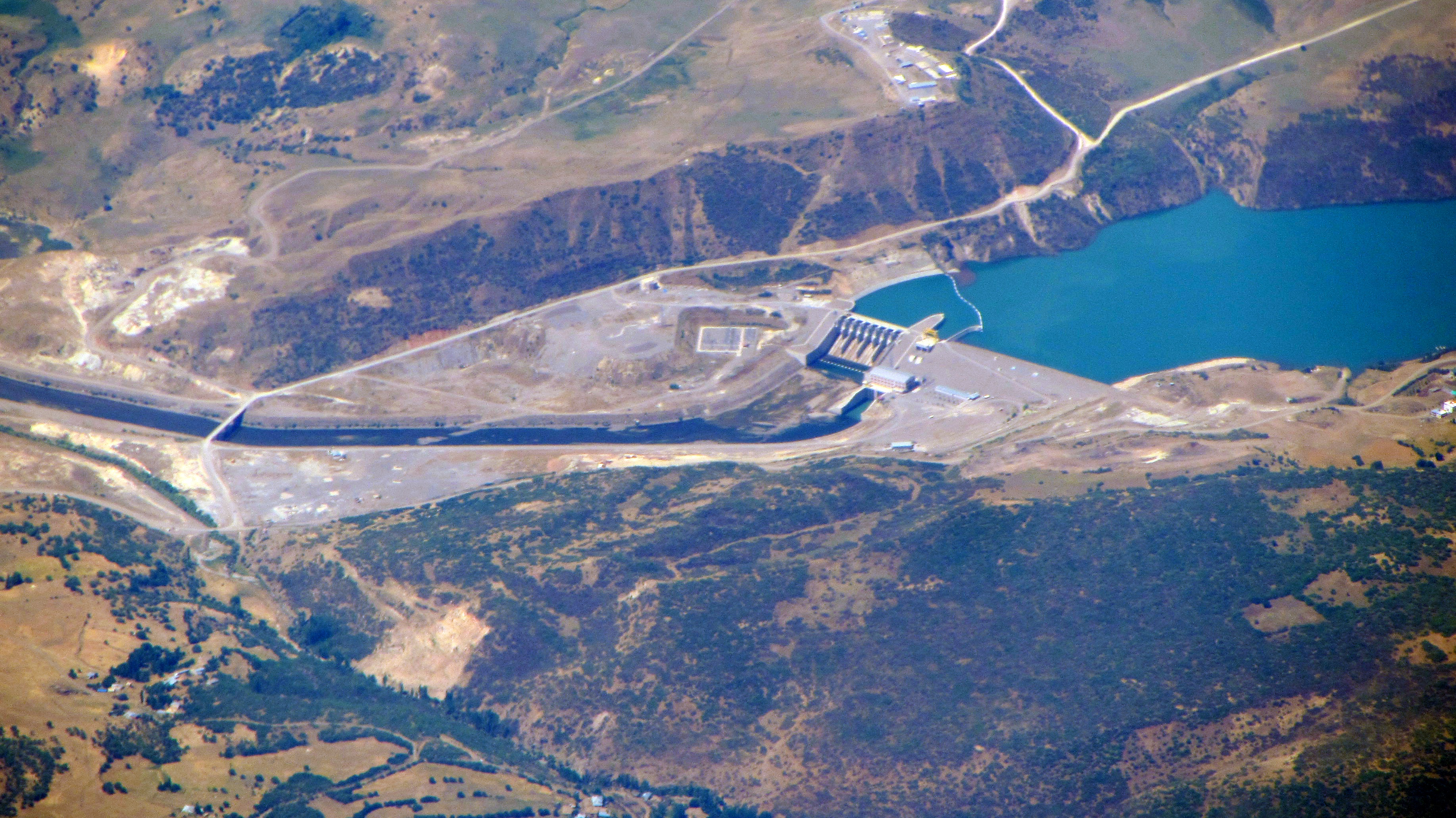 Aerial view of the Seyrantepe Dam in Turkey.